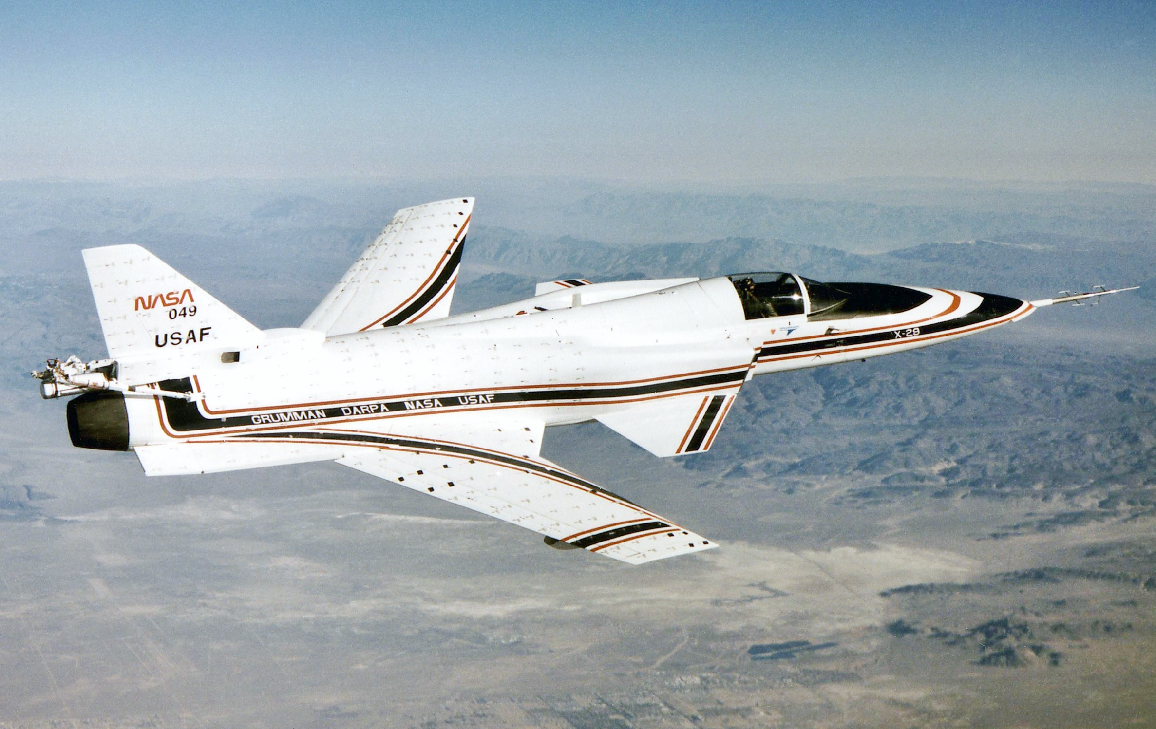 The No. 2 X-29 technology demonstrator aircraft is seen here during a 1990 test flight. At this angle, the aircraft’s unique forward-swept wing design is clearly visible. The X-29 was flown by NASA's Ames-Dryden Flight Research Facility (later redesignated the Dryden Flight Research Center), Edwards, California, in a joint NASA-Defense Advanced Research Projects Agency-Air Force program to investigate the unique design's high-angle-of-attack characteristics and its military utility. Tufts -- small strips of cloth attached to the surface of the aircraft to visually study the flow of air over the aircraft -- can be seen on the aft fuselage, wing, and tail surfaces of the X-29 in this photo. Angle of attack, or high alpha, refers to the angle of an aircraft's body and wings relative to its actual flight path. This aircraft was flown at Dryden from May 1989 until August 1992.